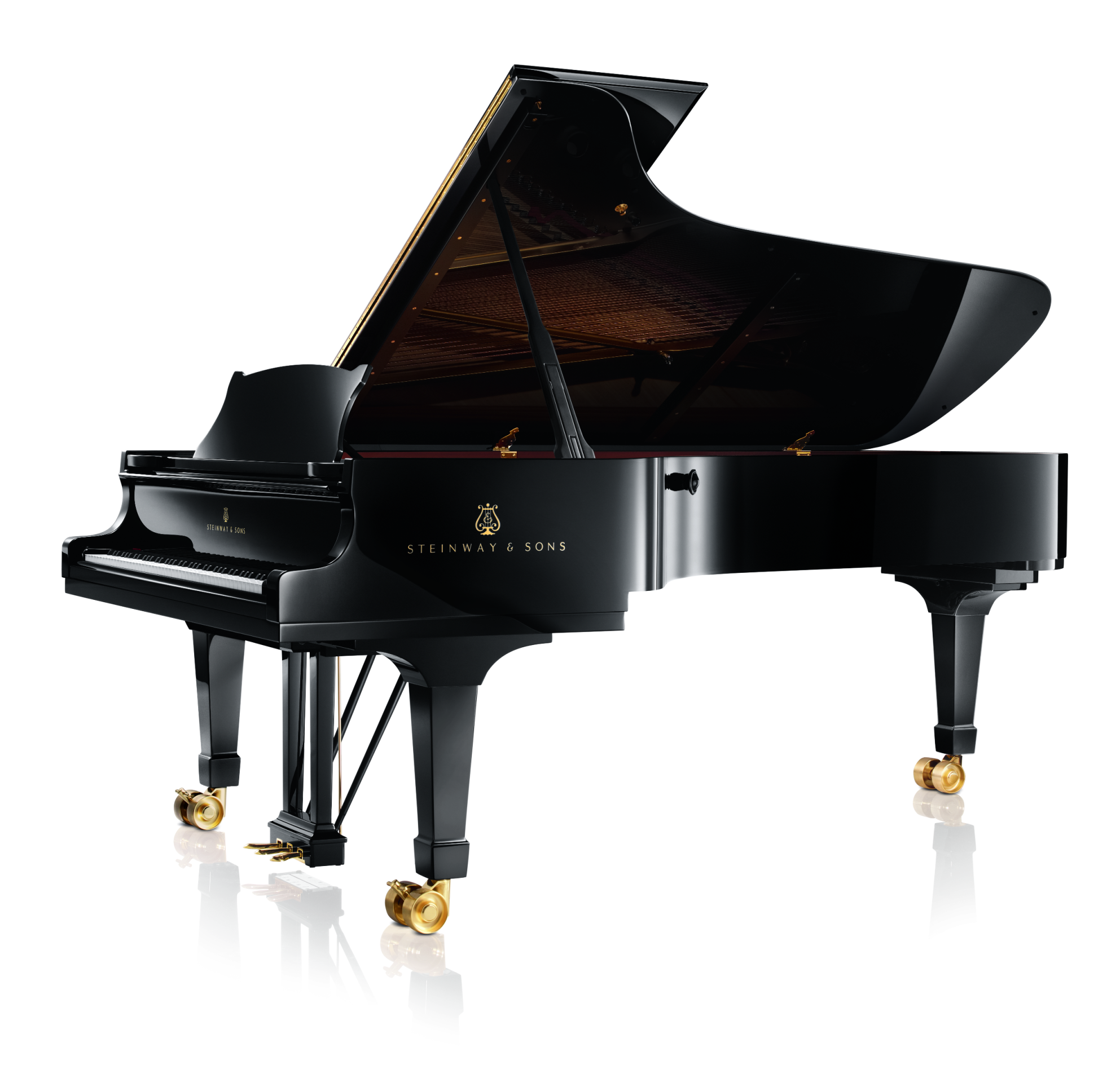 Steinway & Sons concert grand piano in high polish polyester finish, model D-274 (length: 274 cm / 107.9 in, width: 156 cm / 61.4 in, weight: approx. 480 kg / 1056 lb), manufactured at Steinway's factory in Hamburg, Germany.